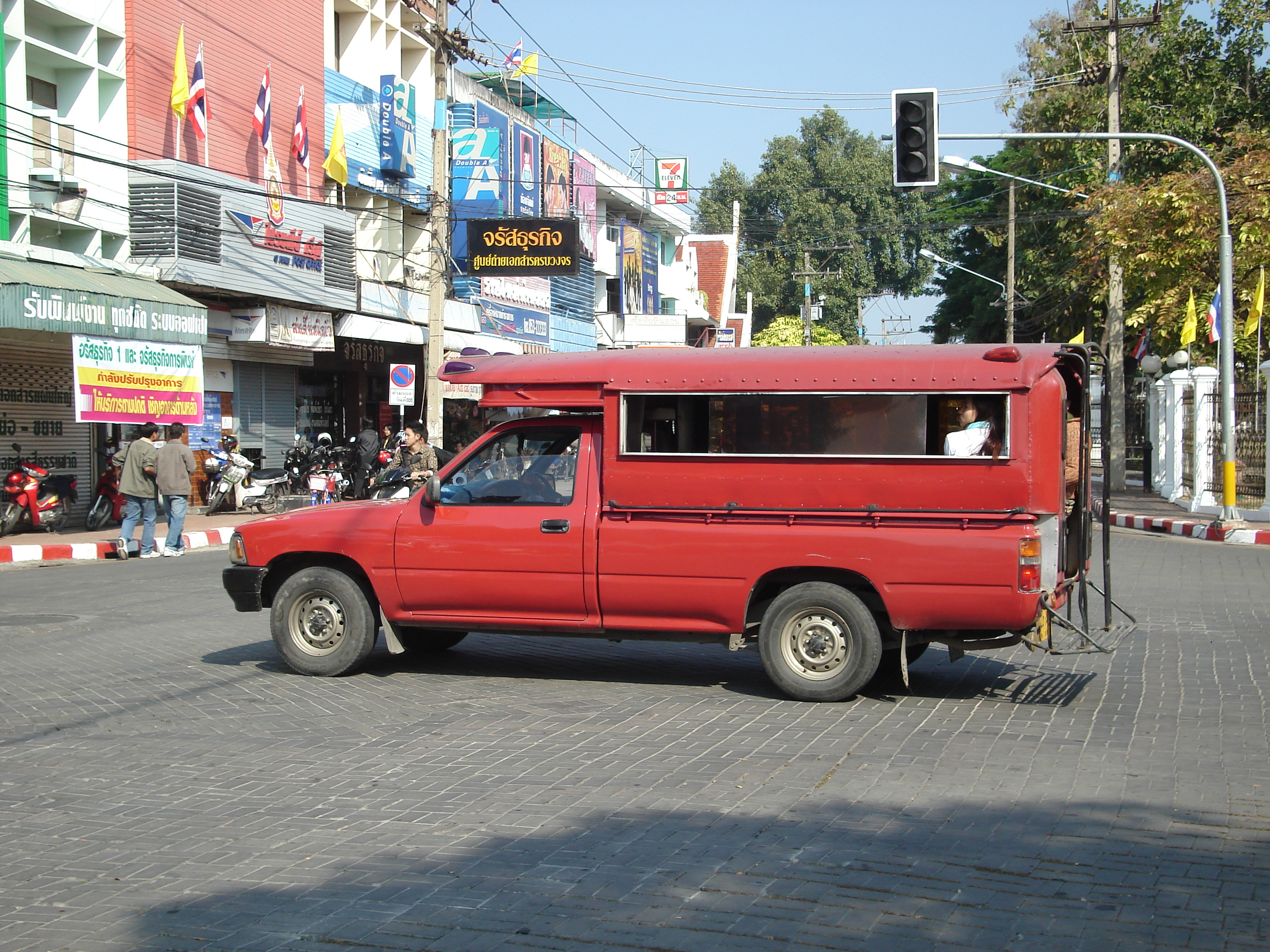 songthaews (the latter known locally as rot daeng, literally "red car") - Chiang Mai, Thailand รถสองแถว / รถแดง - เชียงใหม่